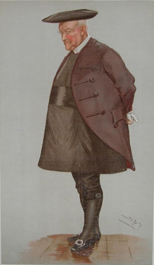 Caricature of William Alexander, Bishop of Derry.